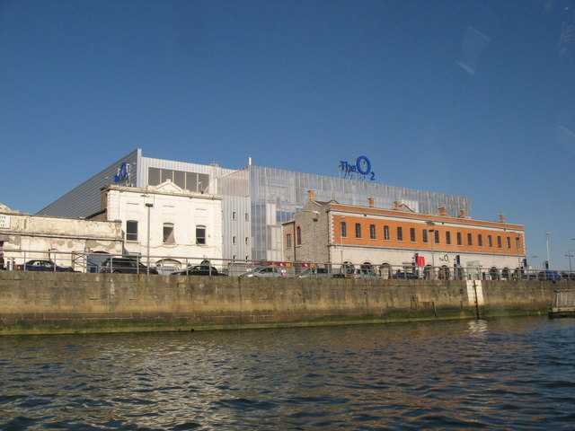 The O2 Dublin (former Point theatre)